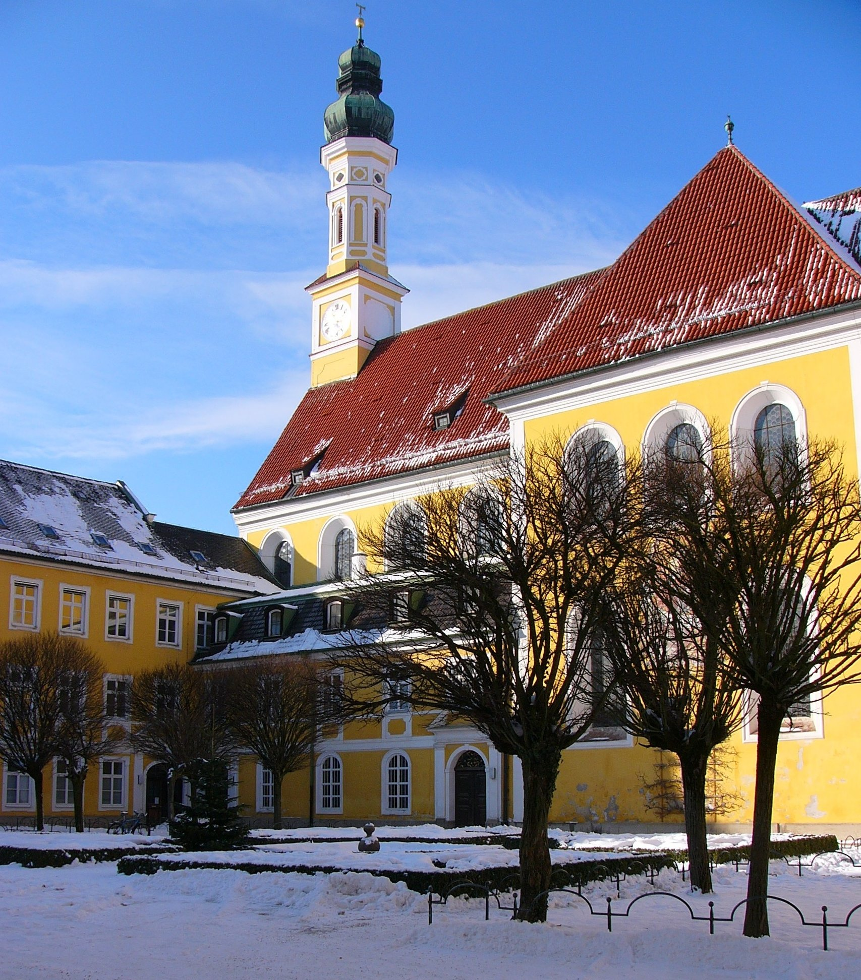 This is a photograph of an architectural monument.